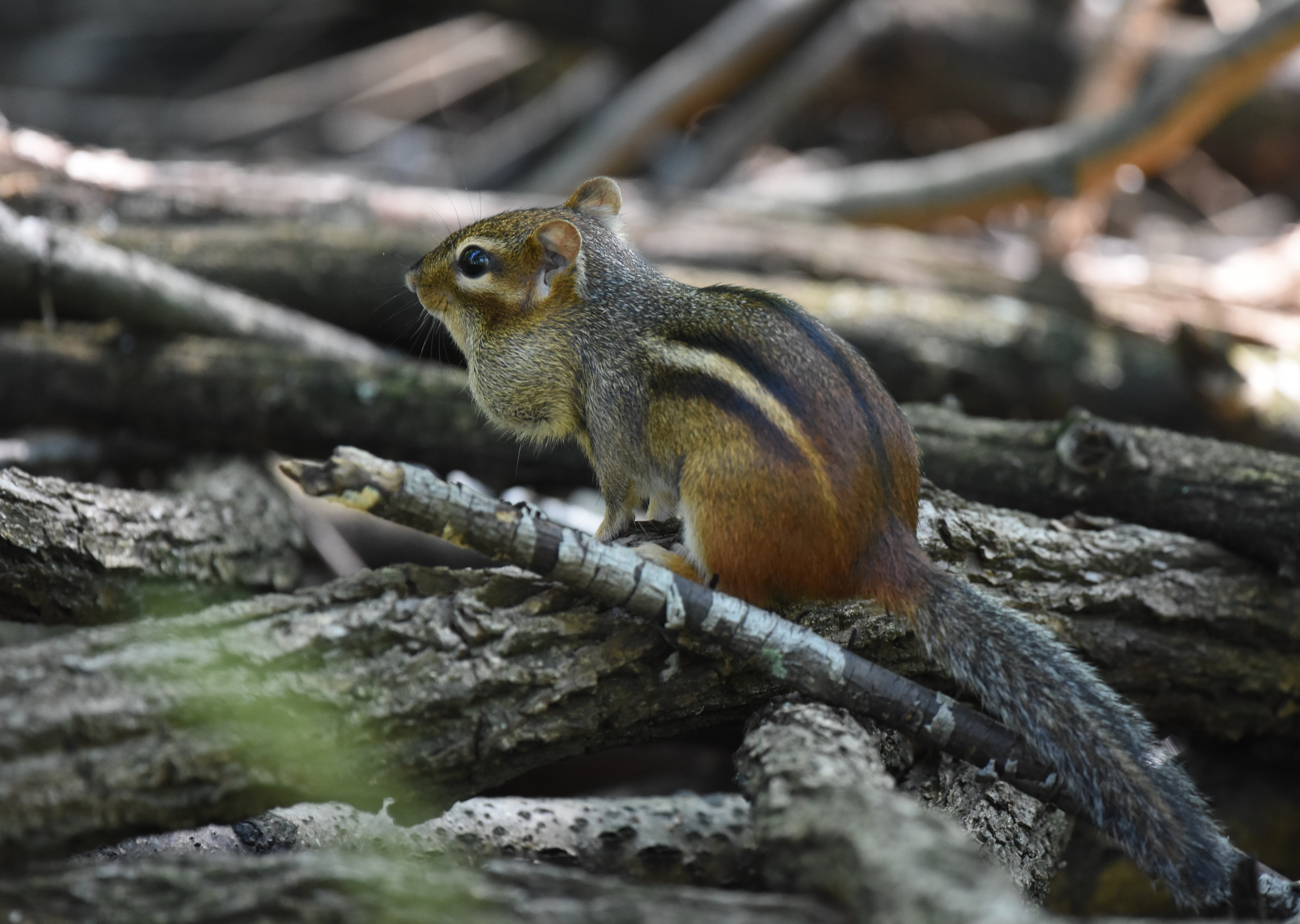 Chipmunk